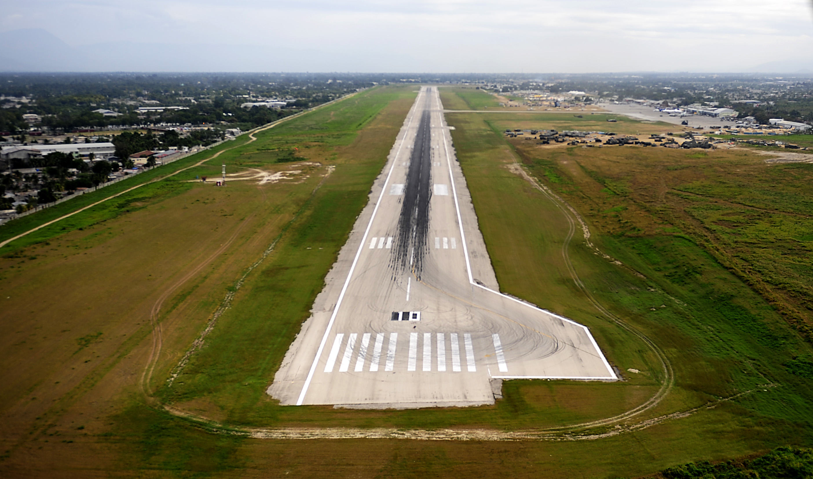 An aerial view of the Toussaint L'Ouverture International Airport in Port-au-Prince, Haiti, is shown Jan. 26, 2010.